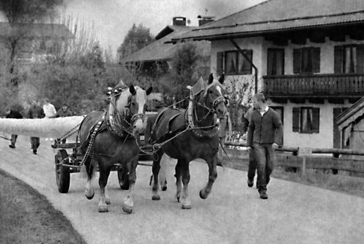 Horse drawn transport